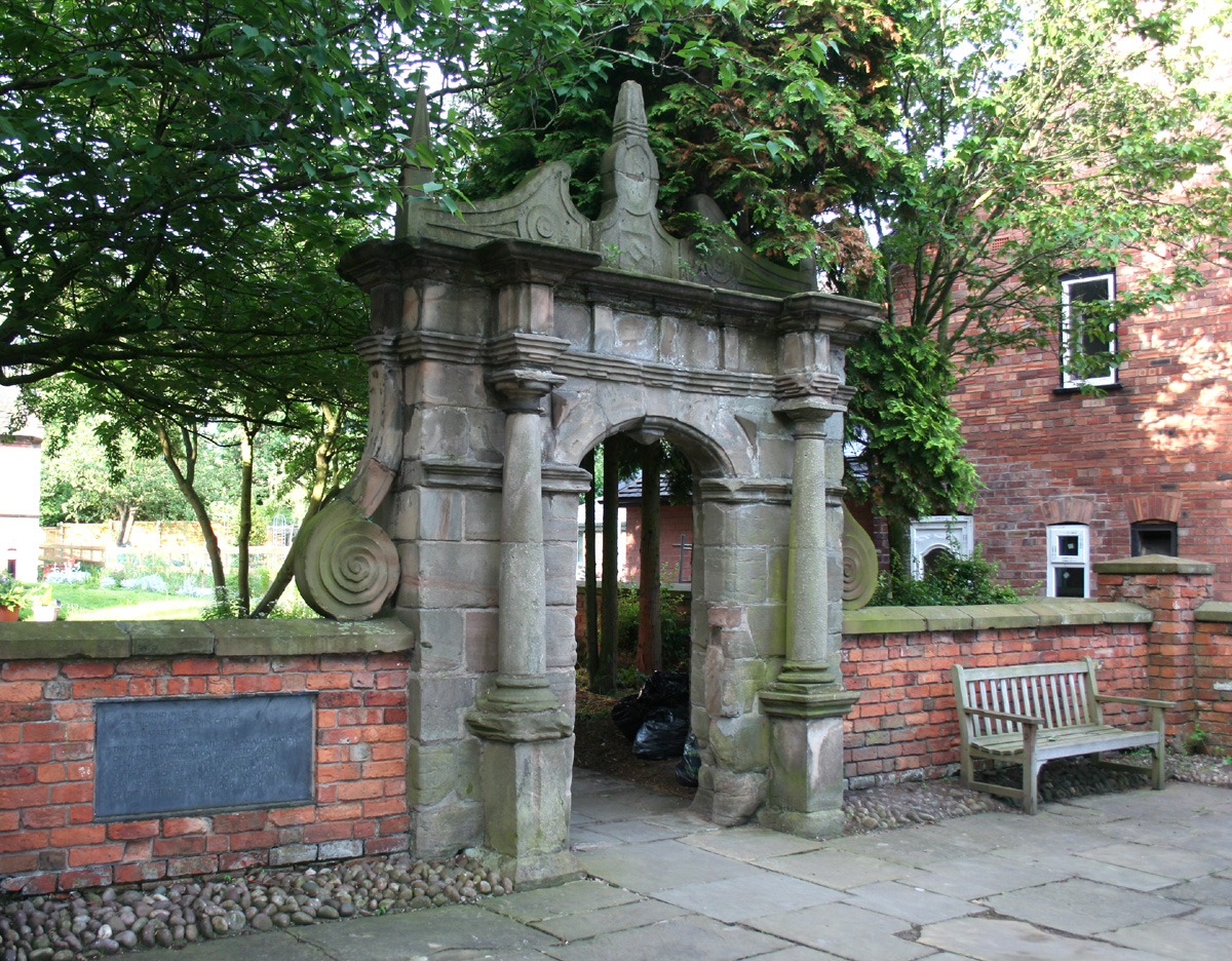 Gateway to Wright's Almshouses, Nantwich, Cheshire